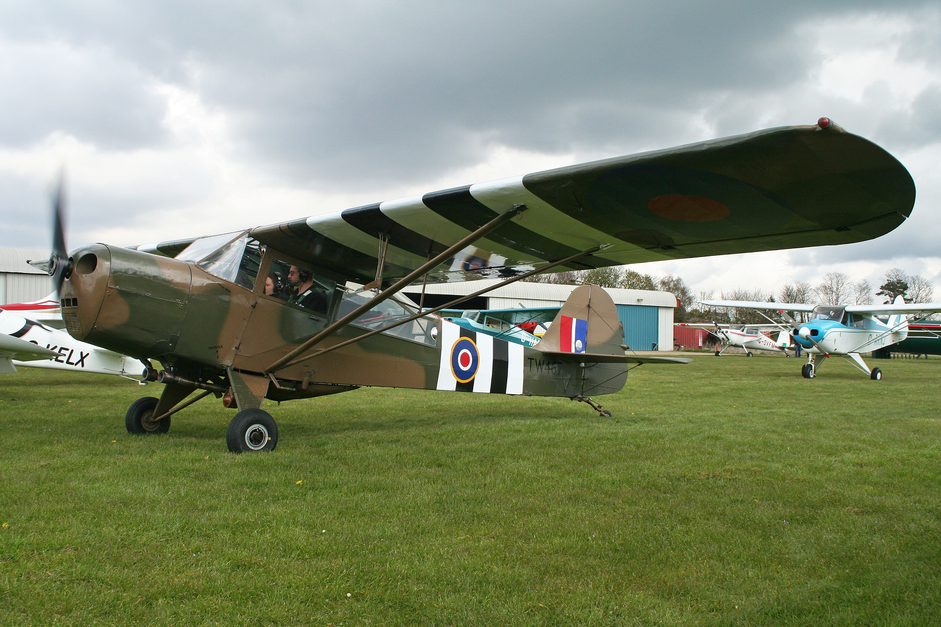 In genuine military markings as 'TW467'. msn 1809. A classic visitor at the 2012 VAC and Daffodil Fly-in. Fenland Airfield. 14-4-2012